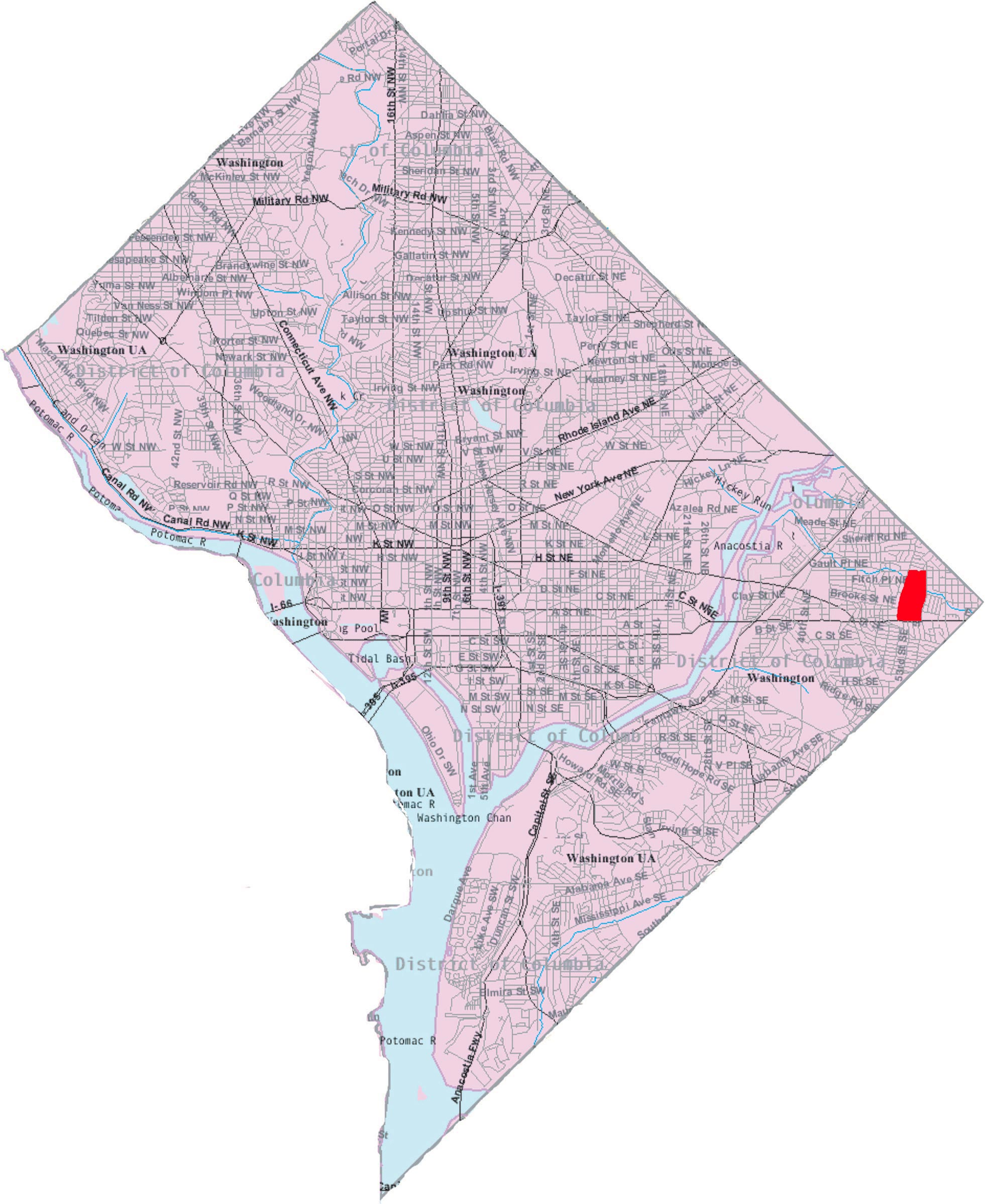 This image is a modified version of a self-generated reference map from the U.S. Census Bureau's American Factfinder at by Wikipedia user Msclguru.